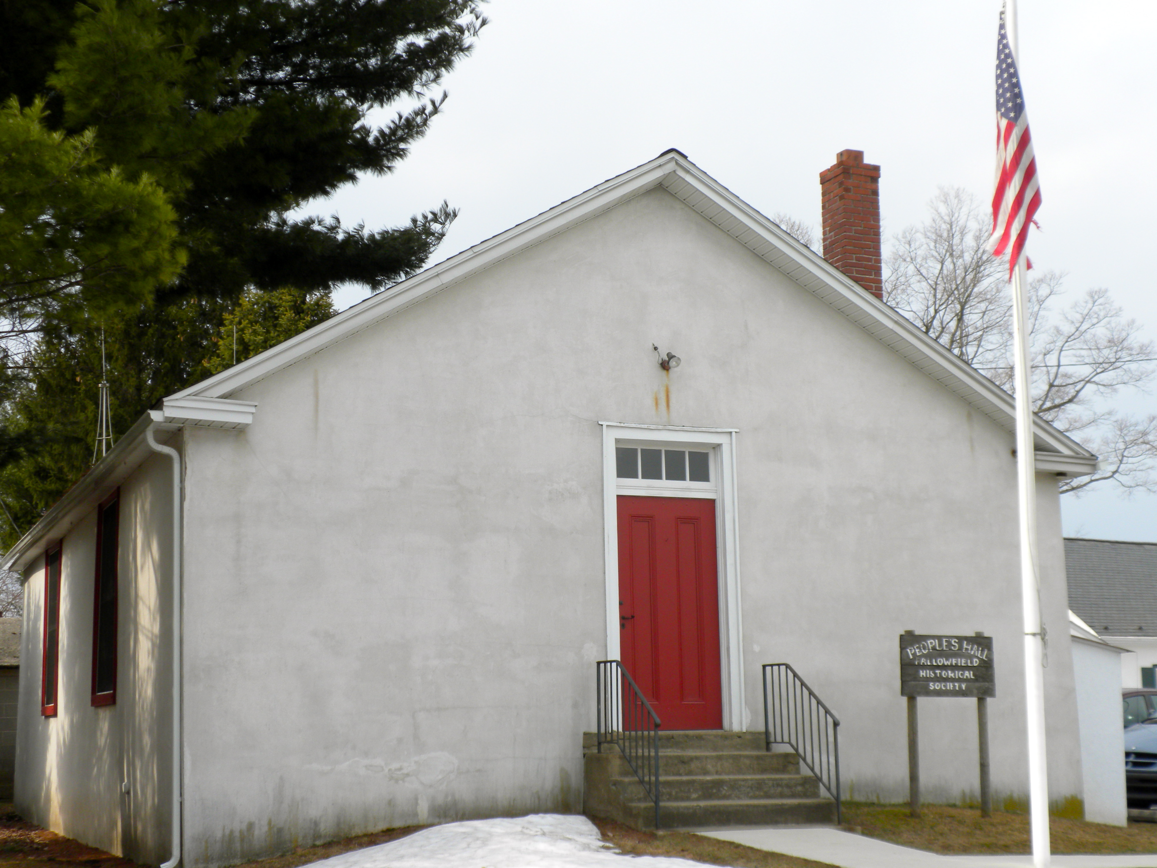 People's Hall in Ercildoun, PA south of Coatesville. Hall was a center of Quaker abolition activity. Part of Ercildoun Historic District on the NRHP